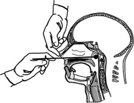 Nasapharyngeal swab